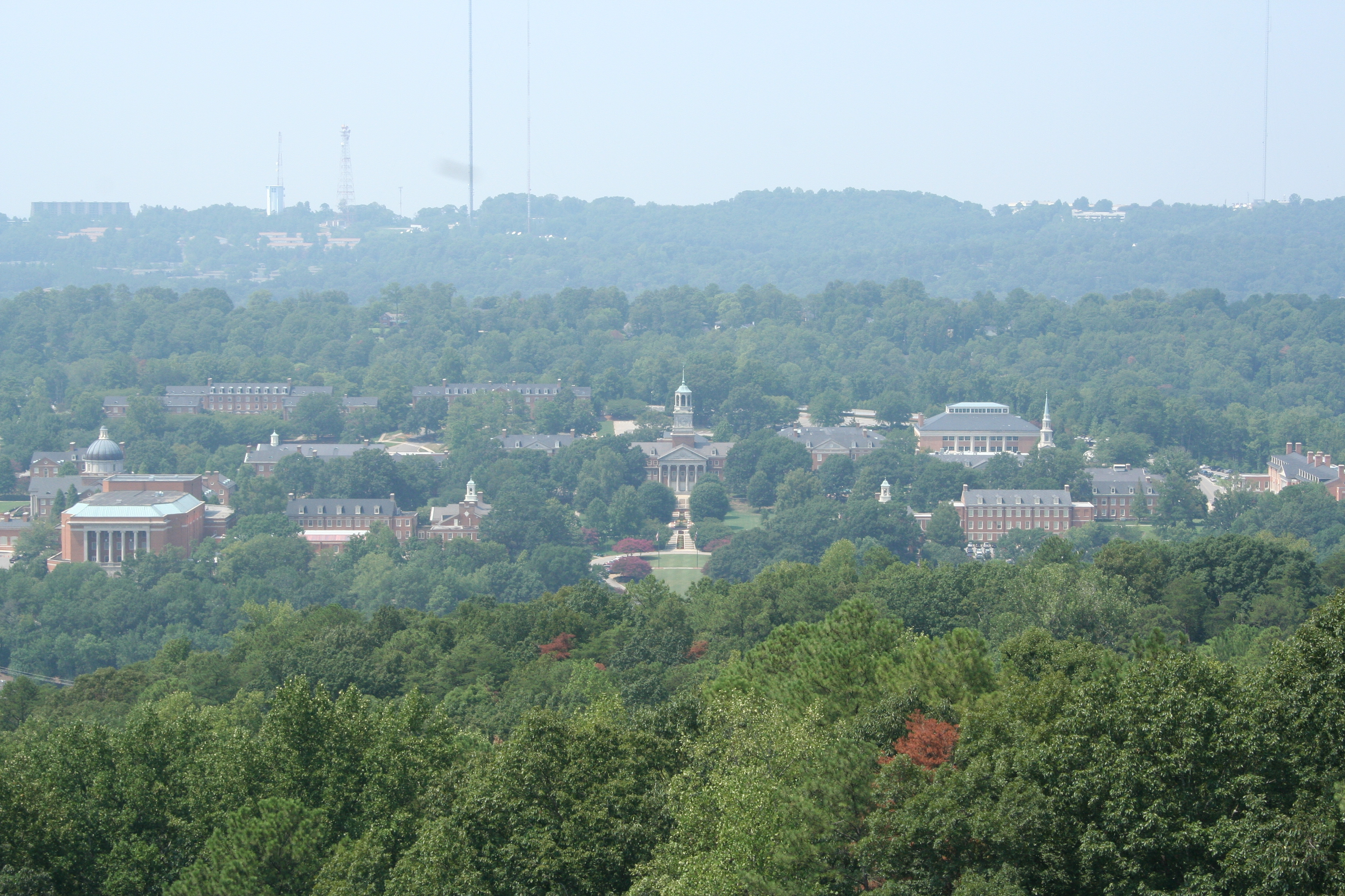 Author: BRM Source: Digital Photo